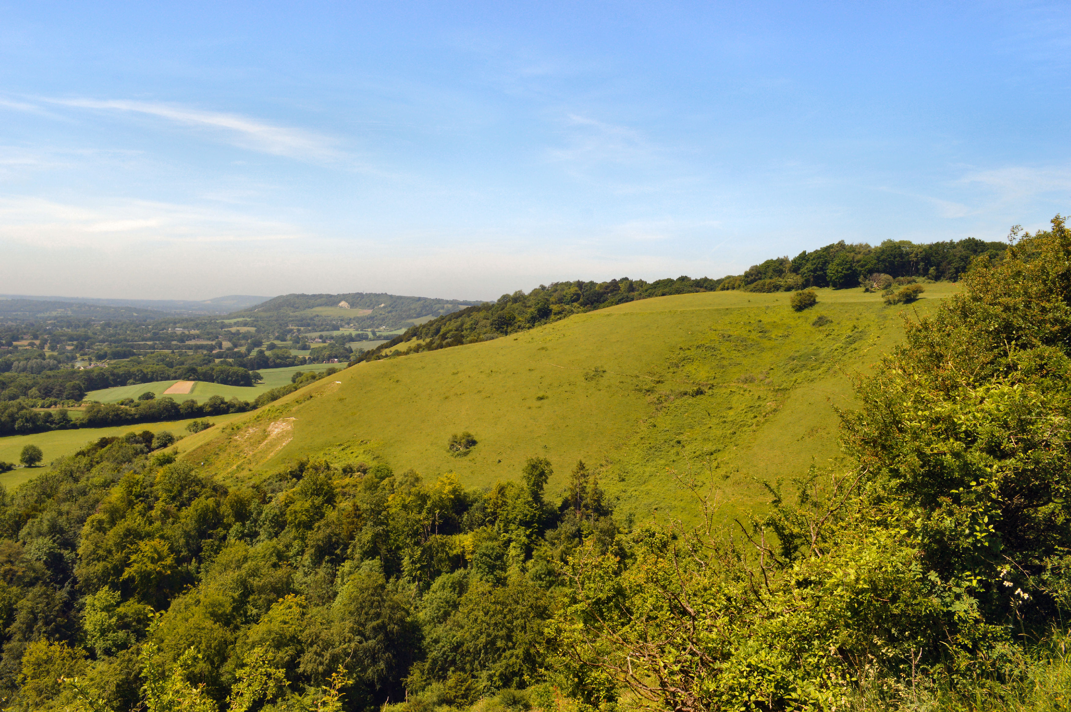 Colley Hill, view